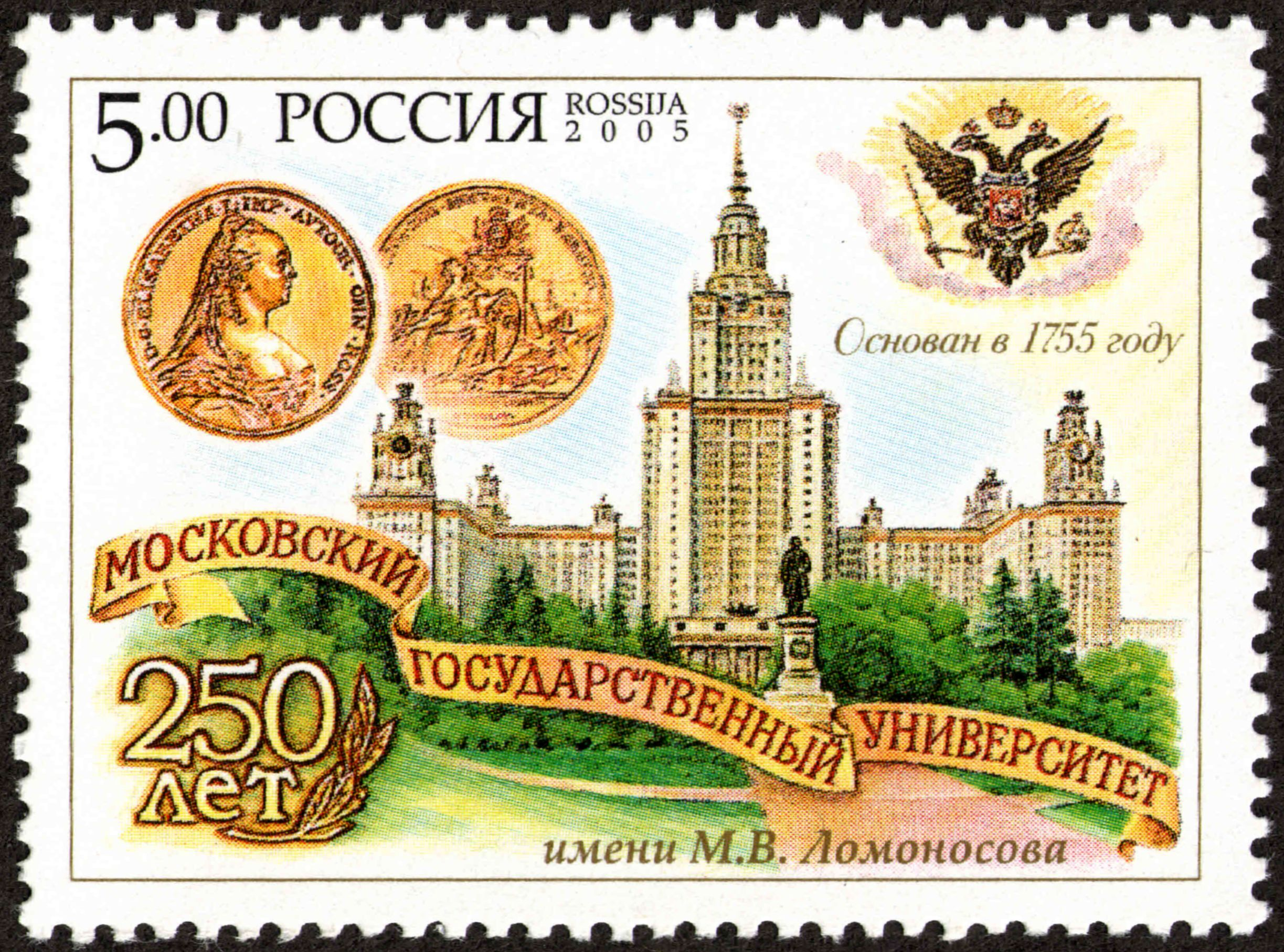 250th anniversary of Moscow State University. The stamp of Russia, 5.00 Rubles, 12 January 2005, PTC Marka Catalogue No 998, Michel No 1230, Scott No 6881. The main building of Moscow State University on Sparrow Hills; the medal commemorating the founding of the university (with the portrait and the allegorical figure of Elizaveta Petrovna, the Empress of Russia); the coat of arms of Russia from the Approving Charter of Moscow Imperial University (1804).